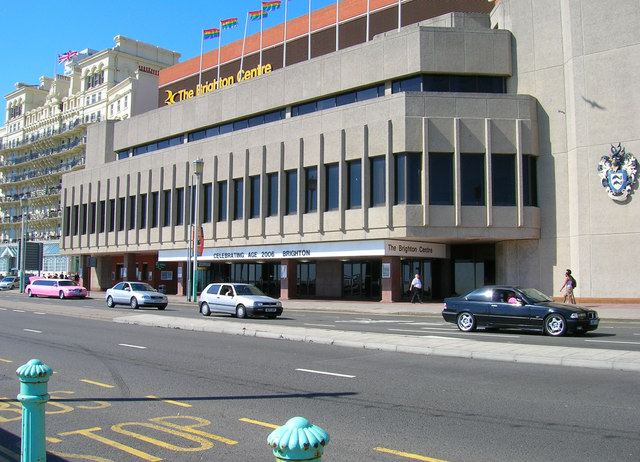 Brighton Centre. Head south down Cannon Place which exits onto Kings Road between the Metropole and Grand Hotels then turn east. Past the Grand is the rather brutal Brighton Centre home to concerts, holiday on ice, Brighton Bears Basketball and party conferences. The building was constructed from 1974 and opened by then Prime Minister Jim Callaghan in 1977 the last part of the Churchill Square development that had been ongoing since 1965. That development ripped out and demolished everything between Western Road in the north, Kings Road to the south, West Street to the east and Cannon Place to the west. The Grand Hotel was threatened with demolition from 1961 but was thankfully saved and is now the only building remaining from pre 1965 within the area mentioned above. The centre has remained in constant use ever since its opening. Click on the link to take you to the next page.